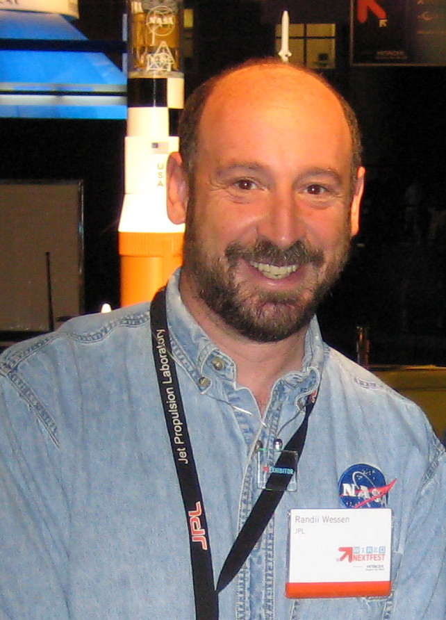 Randii Wessen - Photo taken at NextFest